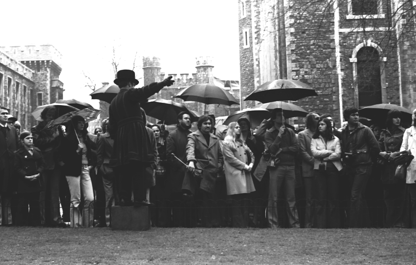 Beefeater, Tower of London